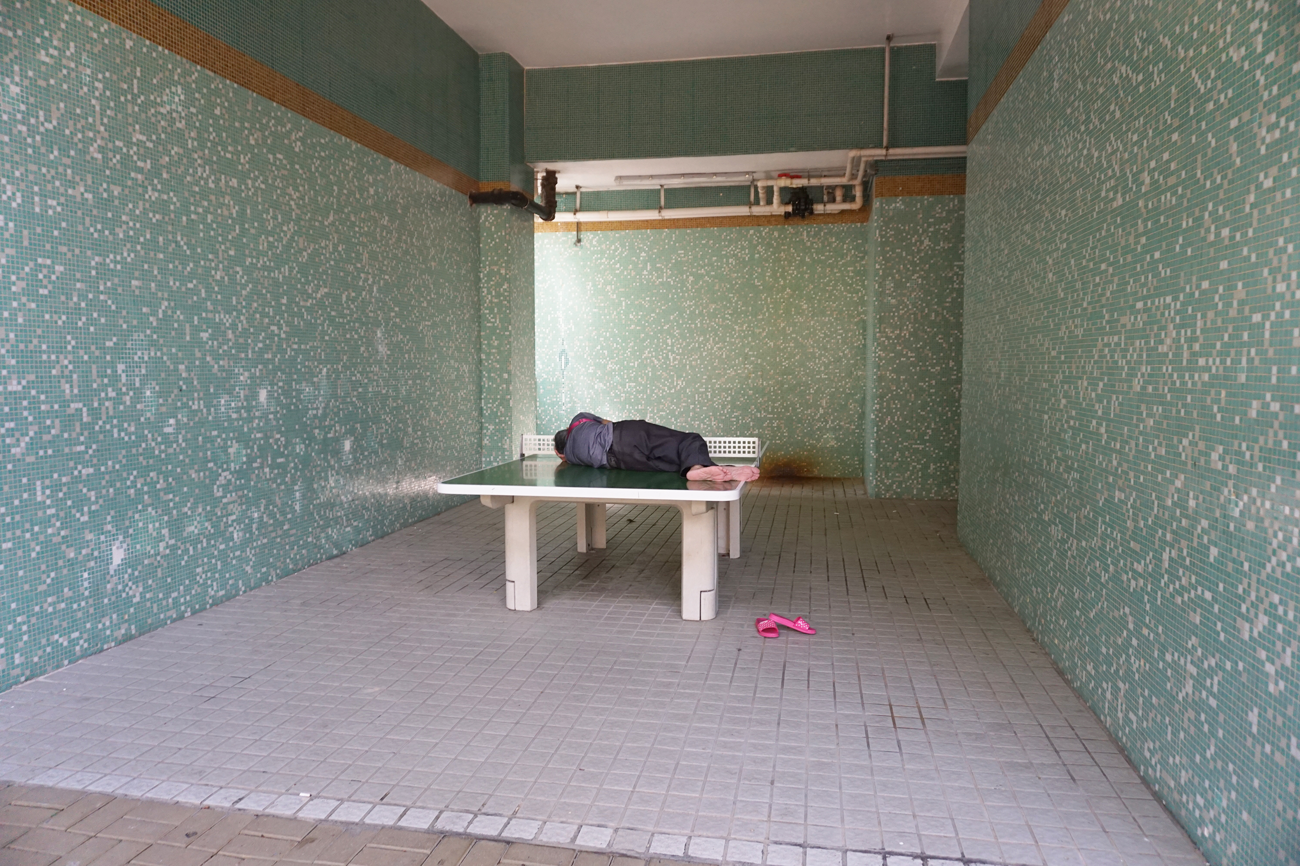 Choi Ying Estate in Kowloon Bay, Hong Kong.